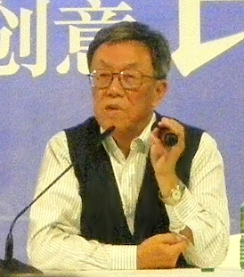 Wang Meng during International Frankfurt Book Fair, Germany 2009